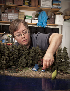 Artist Lori Nix working on a diorama that she will then photograph